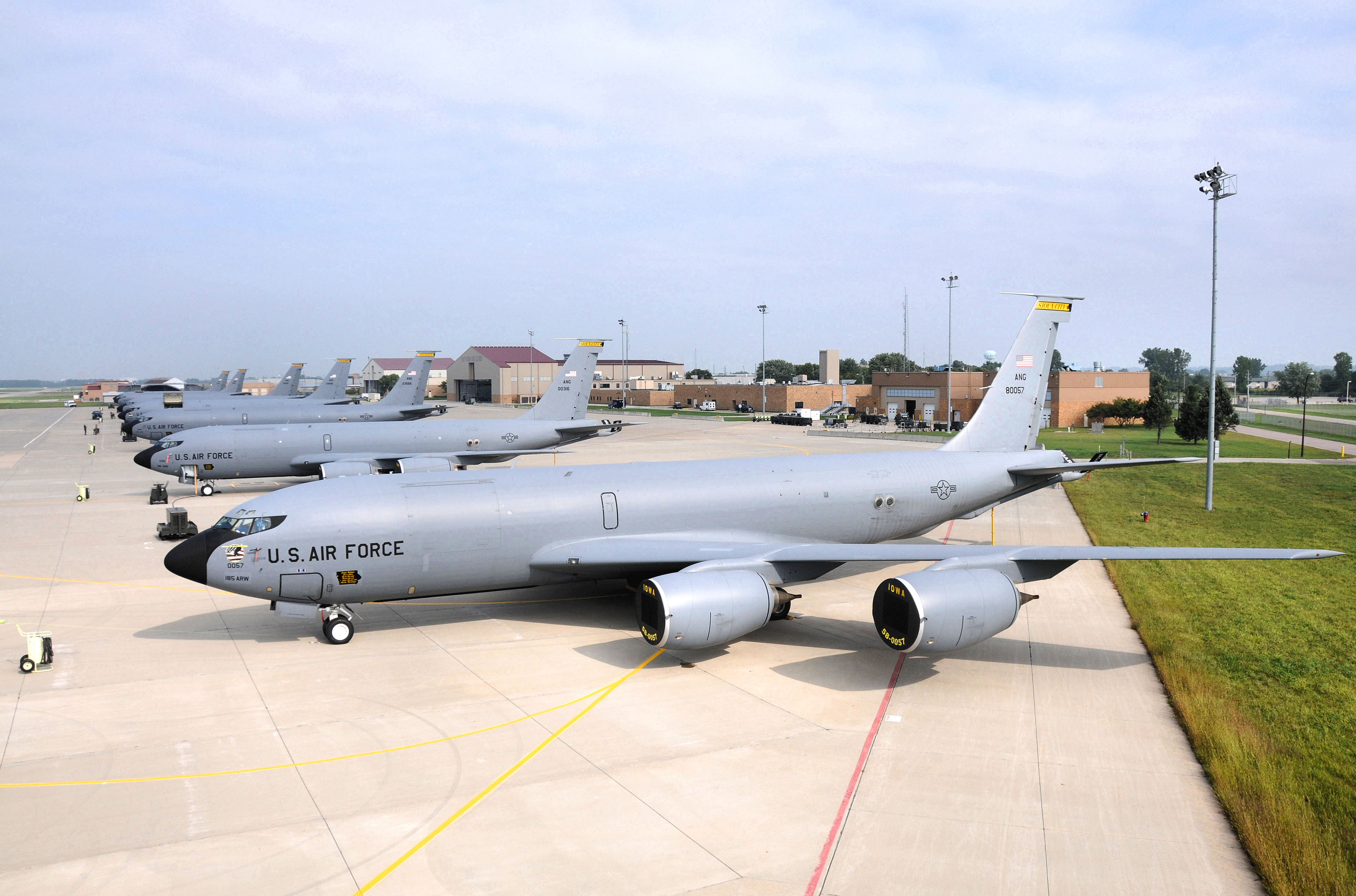 All eight KC-135 "R" model aircraft assigned to the 185th Air Refueling Wing of the Iowa Air National Guard are on the ramp at Sioux City, Iowa. Given the operations tempo for the mid-air refueling aircraft this is a rare site for the Guard Wing based in Sioux City. The photo opportunity lasted for only a few hours on Tuesday, September 8, 2009. USAF Photo by: MSgt Vincent De Groot 185th ARW Public Affairs, Iowa Air National Guard